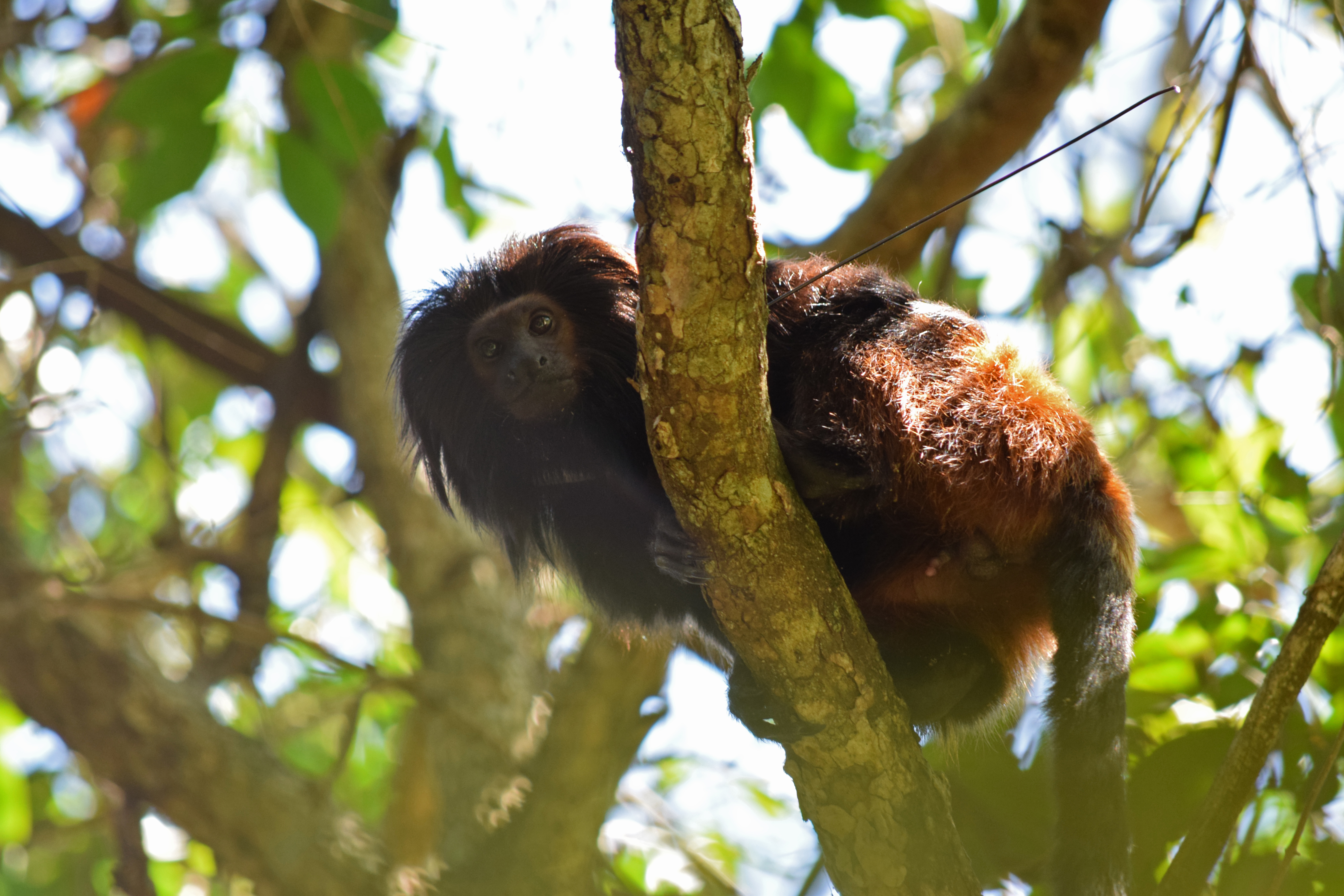 Black lion tamarin in a semidecidous forest remant in Teodoro Sampaio, São Paulo State, Brazil. Santa Mônica Farm.